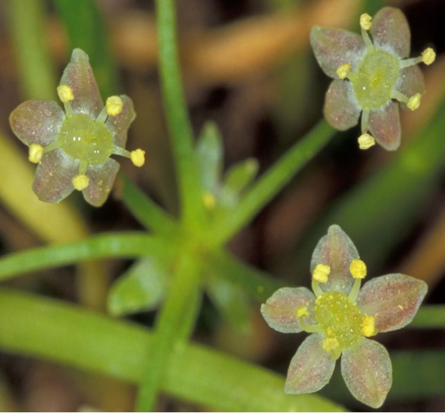 Lilaeopsis schaffneriana ssp. recurva (Huachuca water umbel)